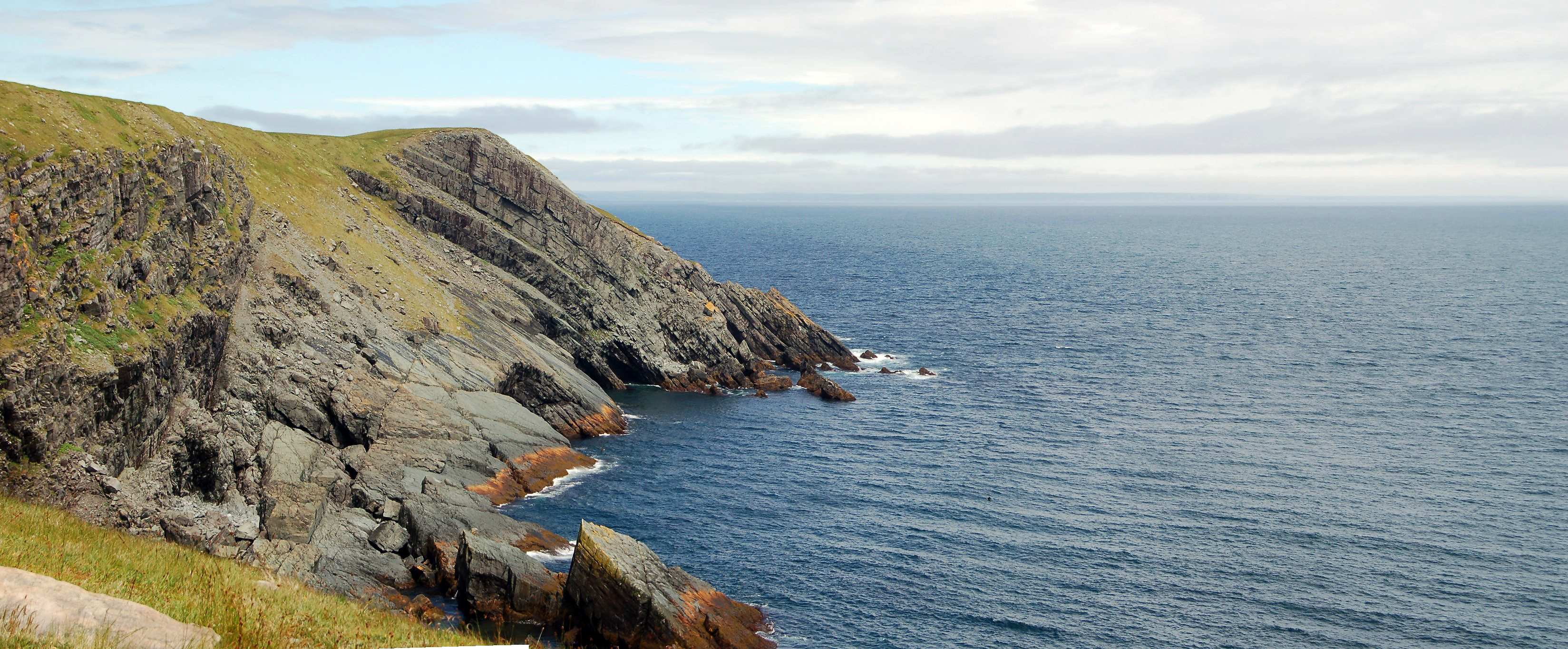 A view across Trepassey Bay from Cape Pine, Newfoundland.